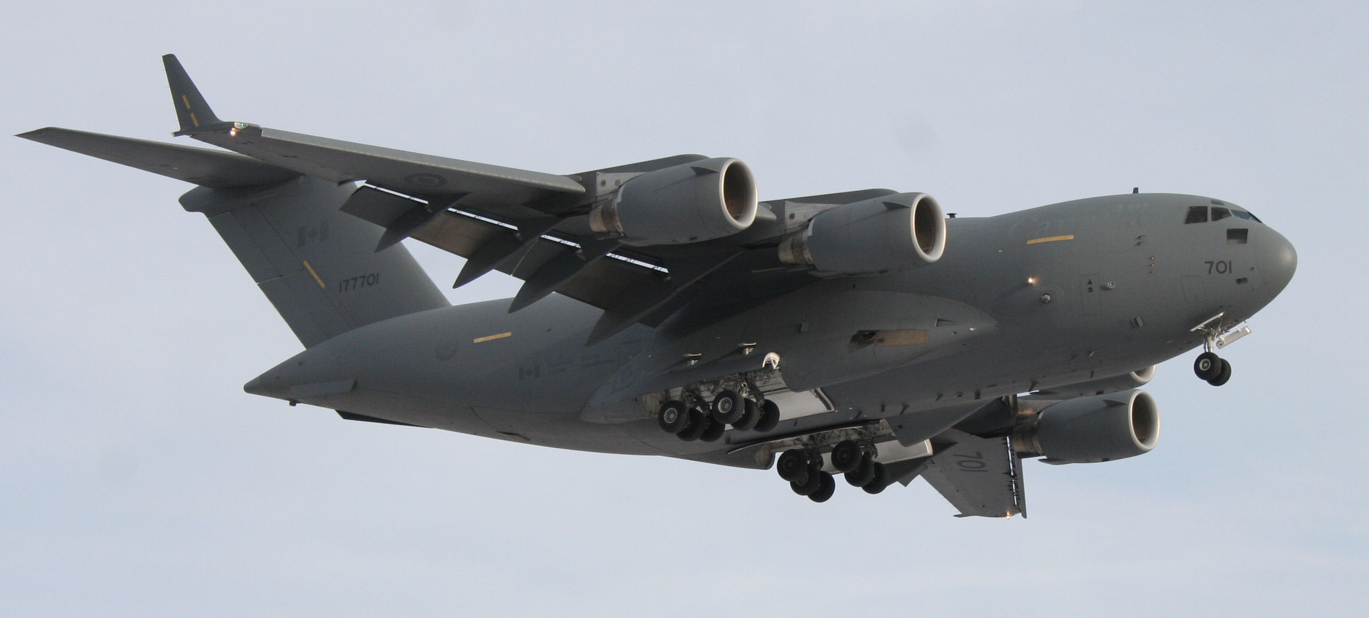 Canadian Forces Boeing CC-177 Globemaster III on approach to CFB Trenton